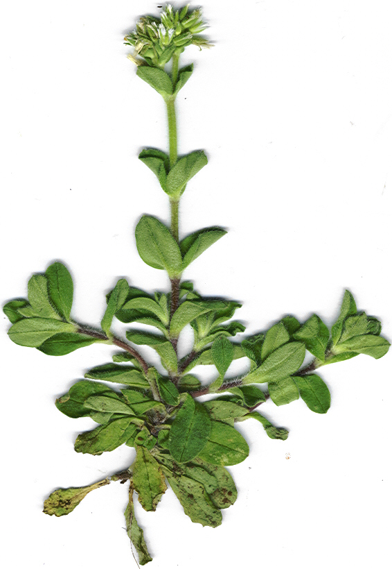 Cerastium glomeratum (plant). Location: Maui, Olinda